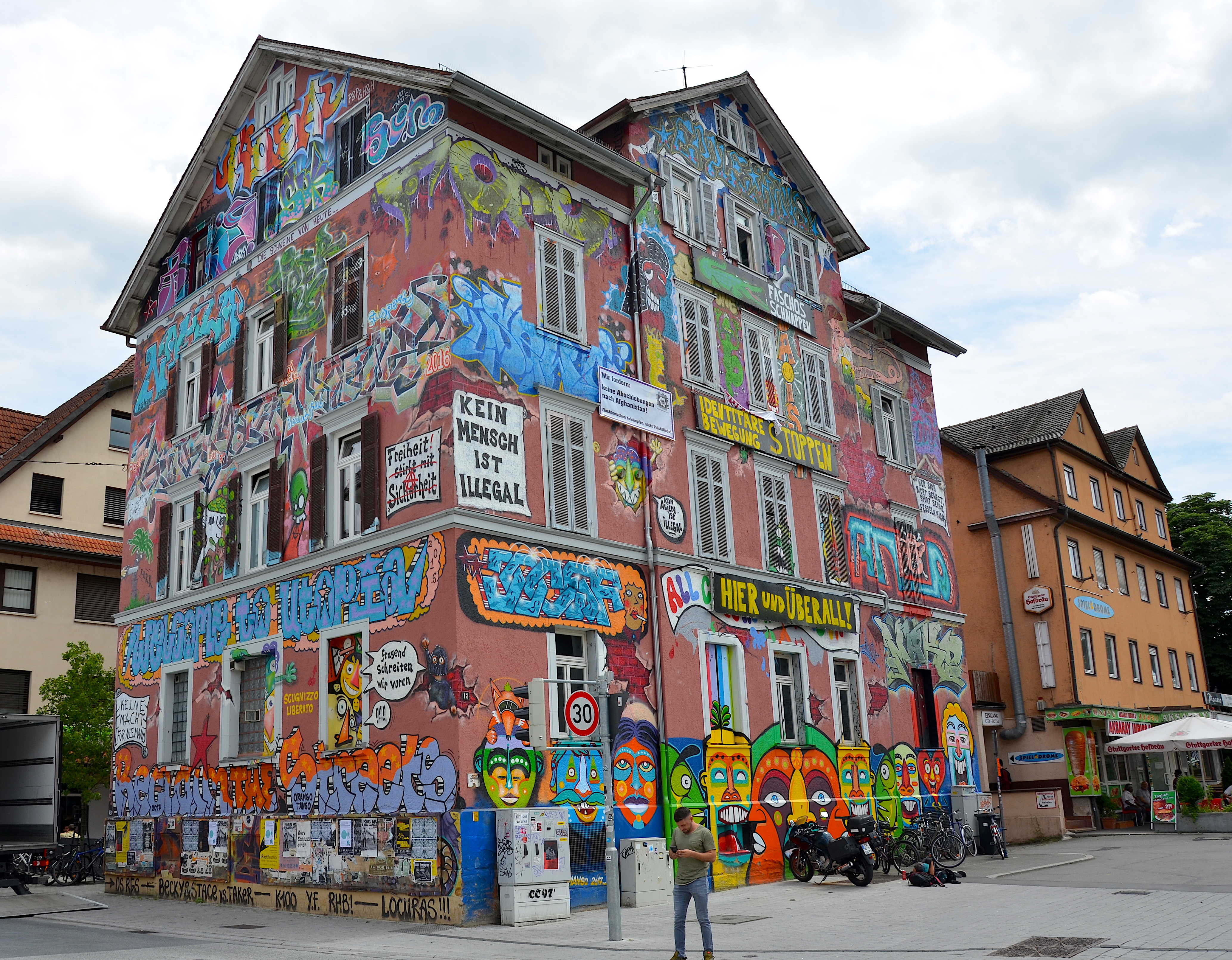 Graffiti art, Epplehaus in Tübingen (2018)